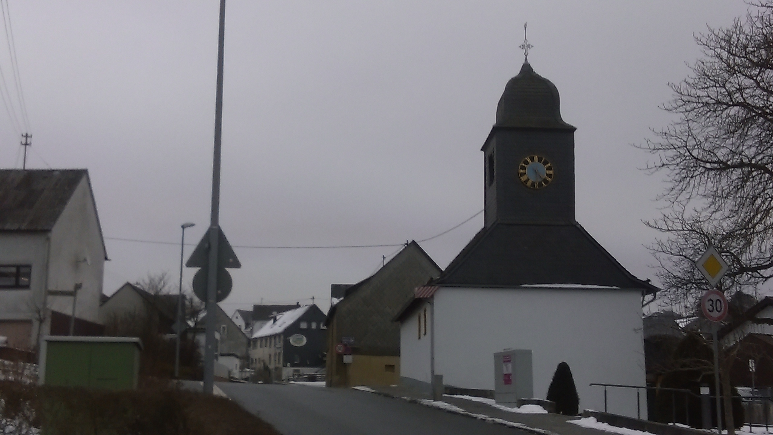 protestant Abtei-Church Göttschied, evangelische Abtei Kirche Göttschied Idar-Oberstein